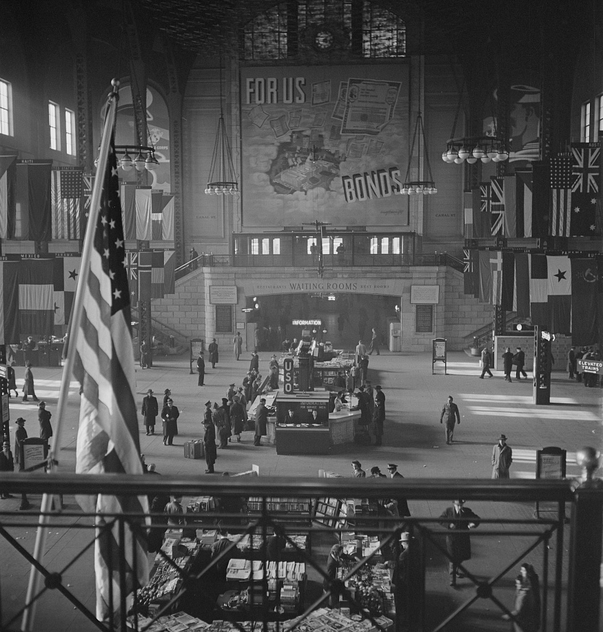 Chicago, Illinois. Union Station concourse